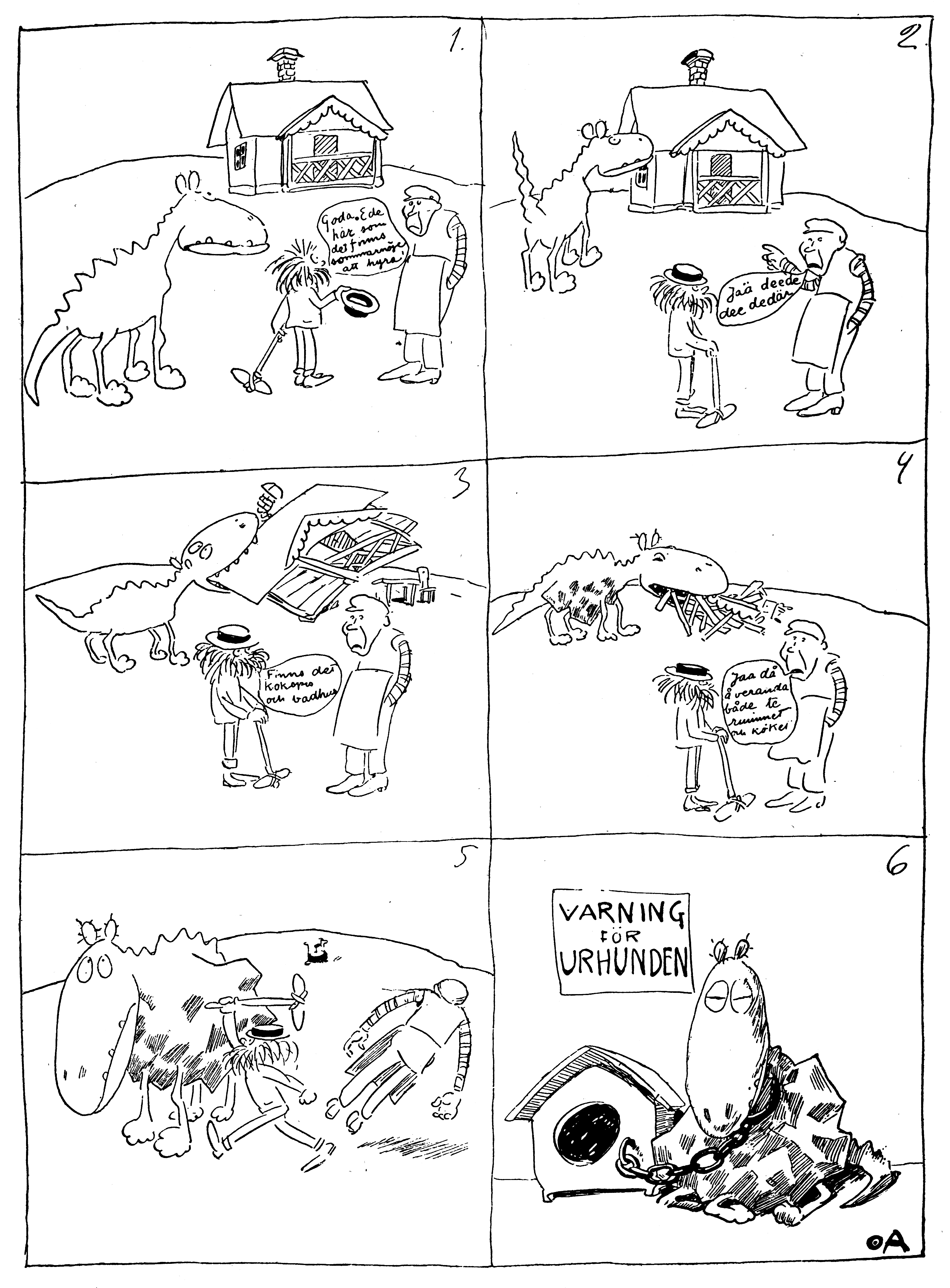 The comic strip Urhunden på sommarnöje by Oskar Andersson (OA).